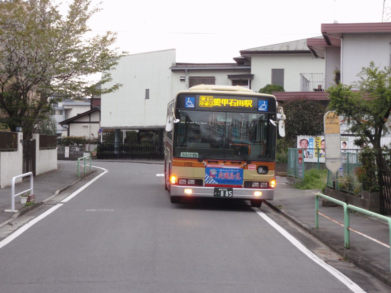 Kanagawa Chuo Kotsu "Ai 01" Route at Takamori-danchi Bus Stop